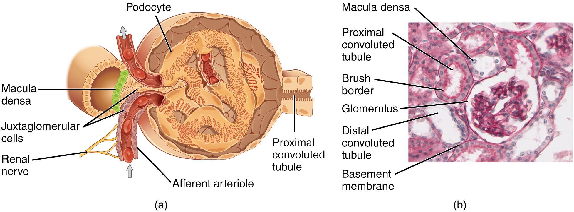 The JGA allows specialized cells to monitor the composition of the fluid in the DCT and adjust the glomerular filtration rate. (b) This micrograph shows the glomerulus and surrounding structures. LM × 1540. (Micrograph provided by the Regents of University of Michigan Medical School © 2012)